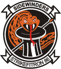 Insignia of the United States Navy Strike Fighter Squadron 86 (VFA-86) "Sidewinders".